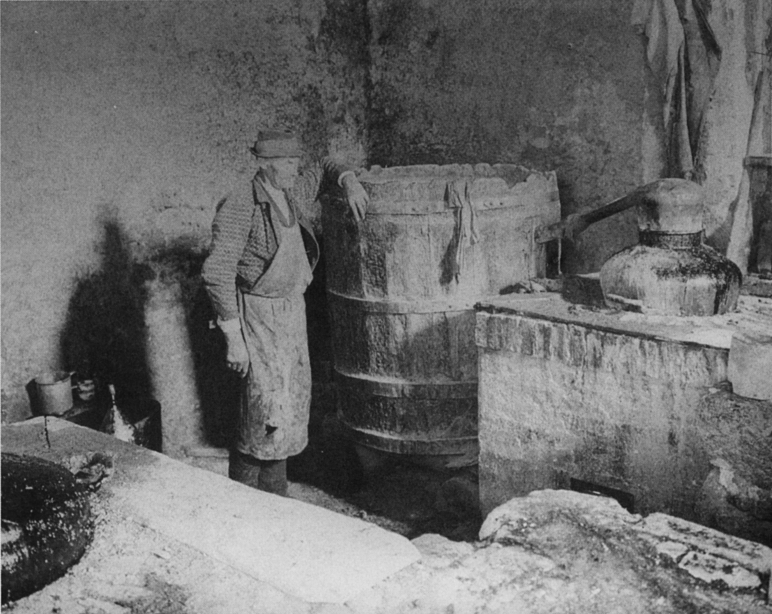 Petschar, Friedlmeier, Steiermark in alten Fotografien, Ueberreuther Verlag Wien. Scanprojekt Community Projektbudget 2012 This scan or this PDF-file was created within the GLAM-project Bookscanning, supported by Wikimedia Germany and Wikimedia Austria as a part of the community-project to capture books, documents and pictures which are not eligible to copyright or for which the copyright has expired. This document describes or depicts an object which is located in Austria today. Texts are written German language. Send requests for uncompressed scans to Hubertl. This work is in the public domain in its country of origin and other countries and areas where the copyright term is the author's life plus 100 years or less. You must also include a United States public domain tag to indicate why this work is in the public domain in the United States. This file has been identified as being free of known restrictions under copyright law, including all related and neighboring rights.